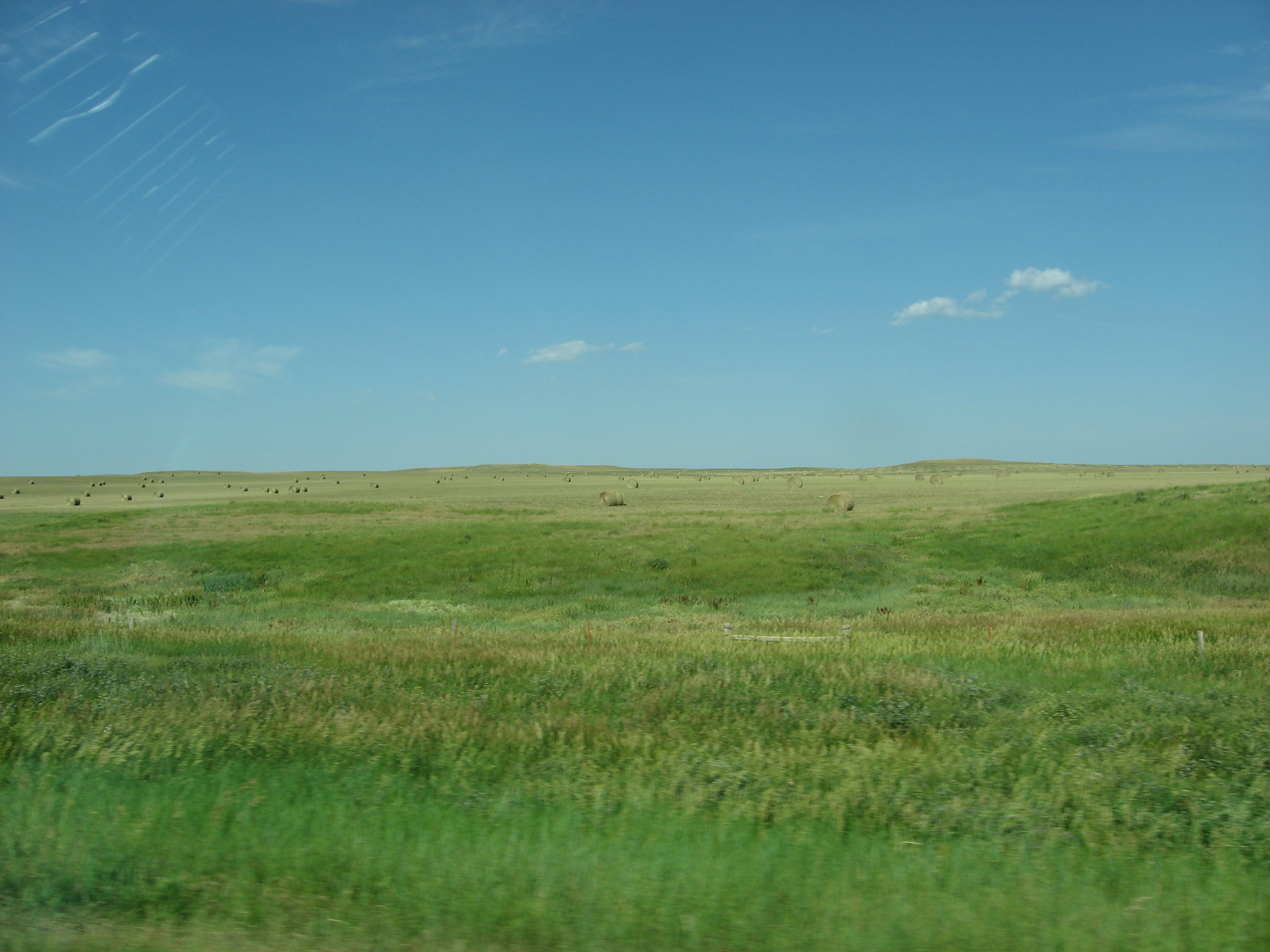 Farmland on Cheyenne River Indian Reservation near U.S. Route 212 — in South Dakota.